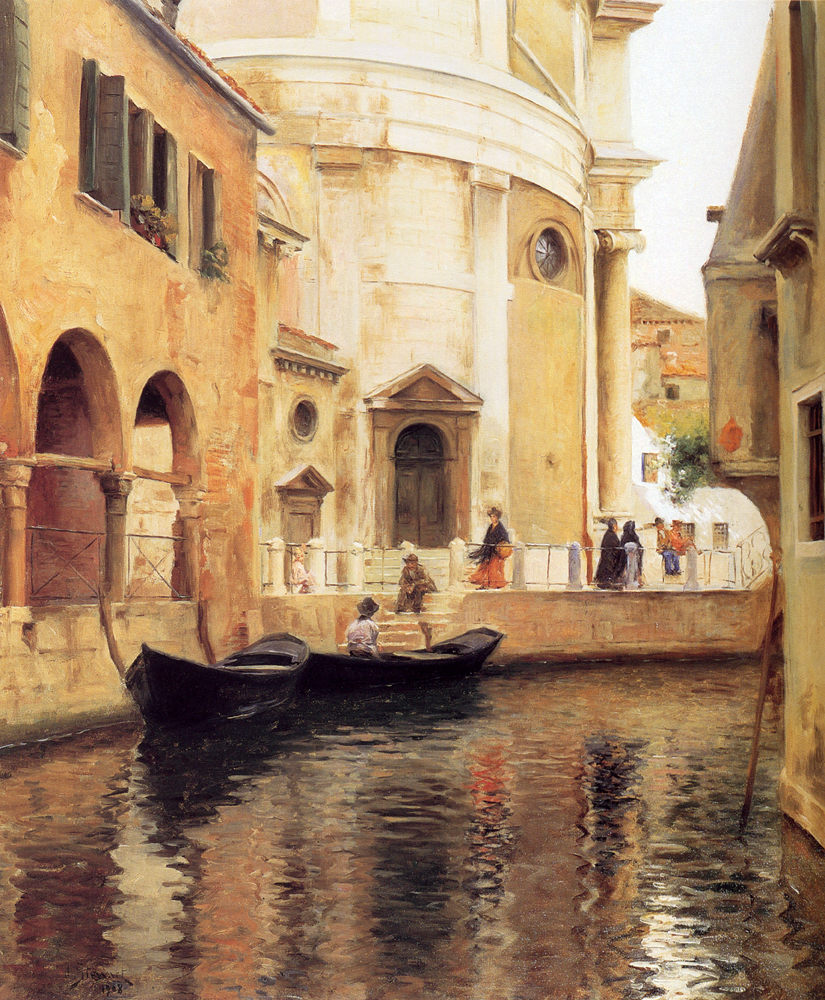 Rio della Maddalena (Venice)